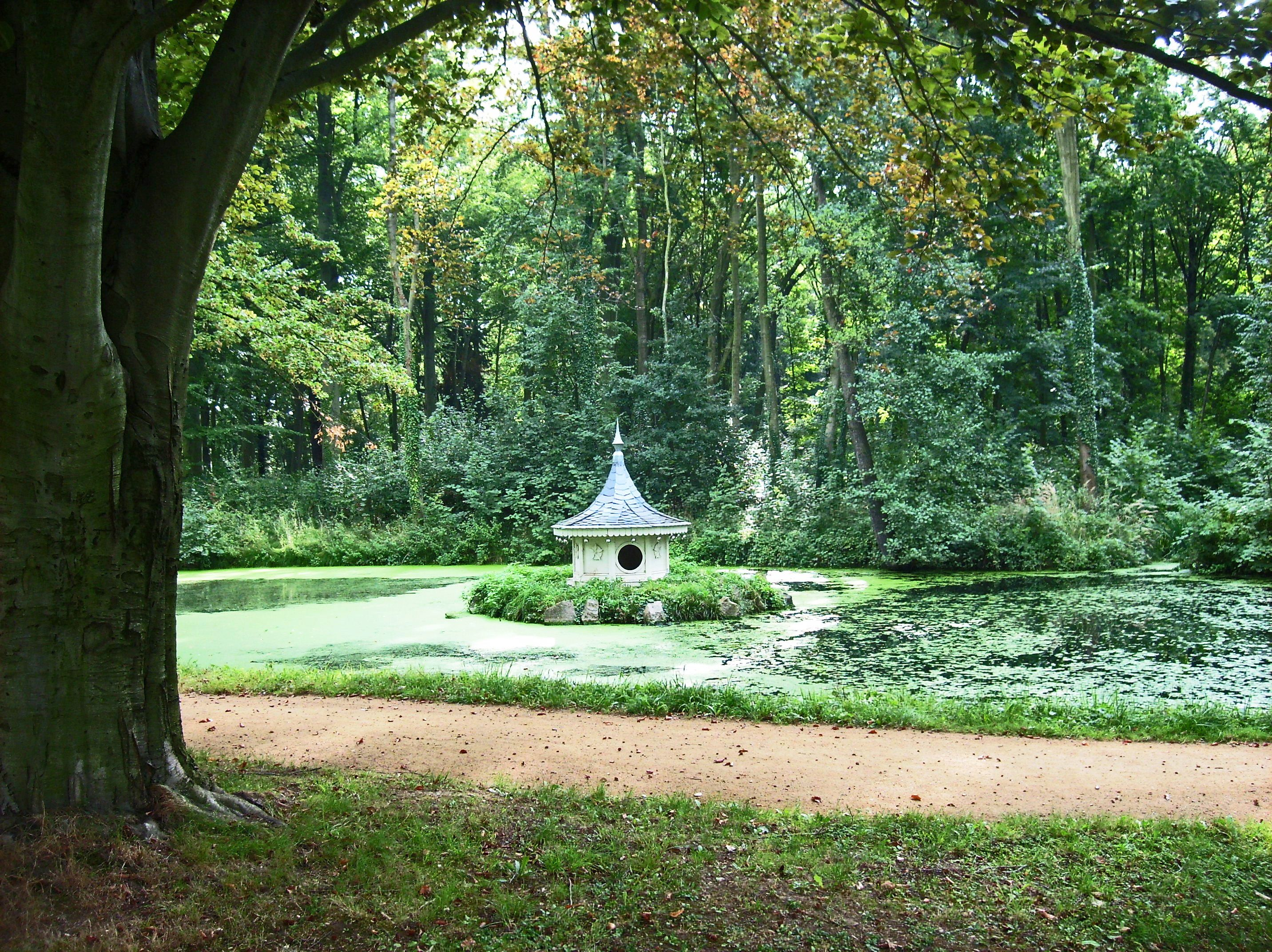 Rose Pond with swan house in the gardens of Lützschena Castle (Leipzig, Saxony)